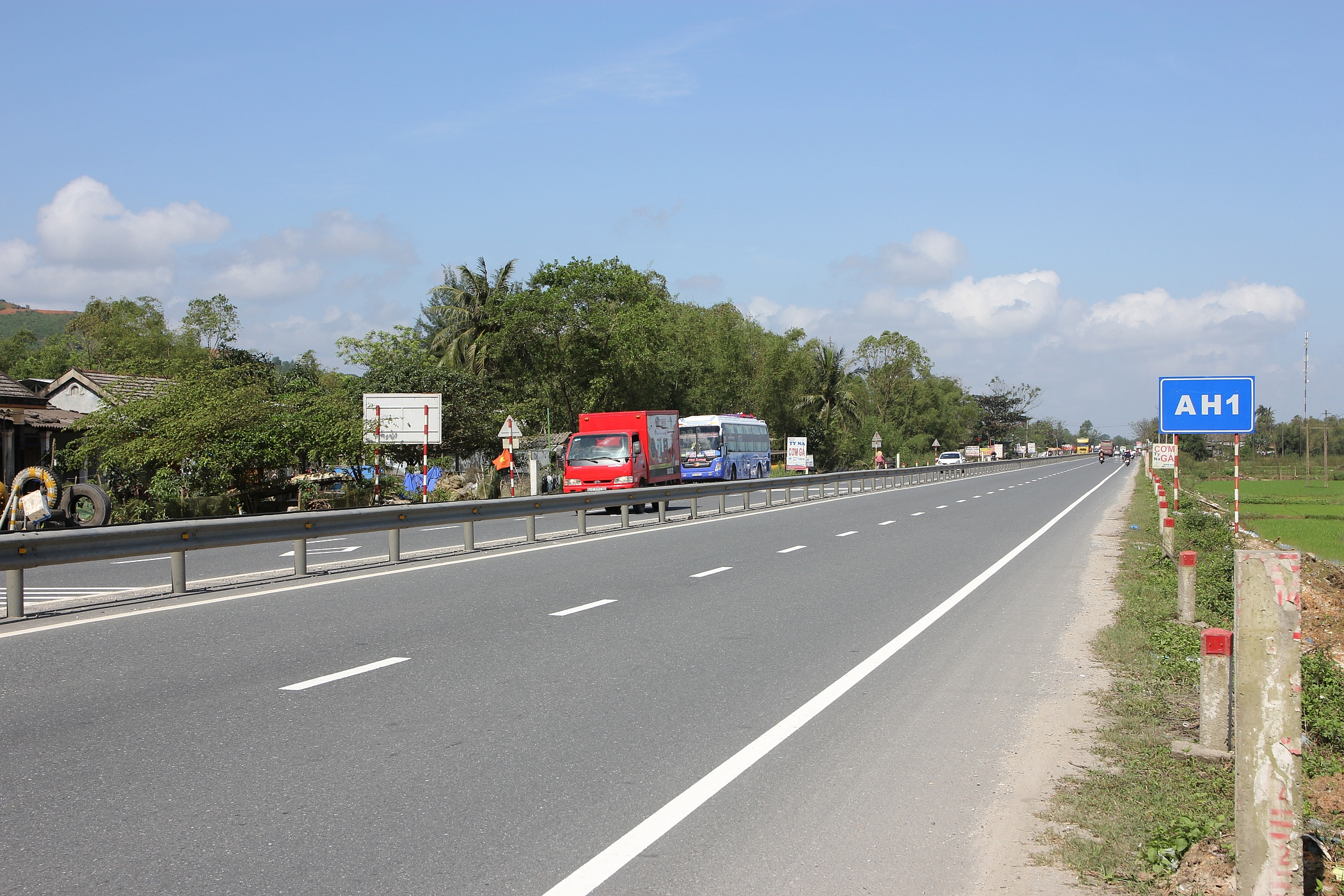 Asian Highway 1 / National Route 1A near Phú Lộc / Vietnam